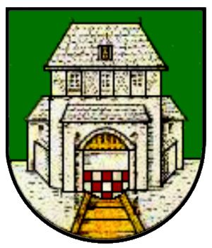 Coat of arms of :de:Vierden.